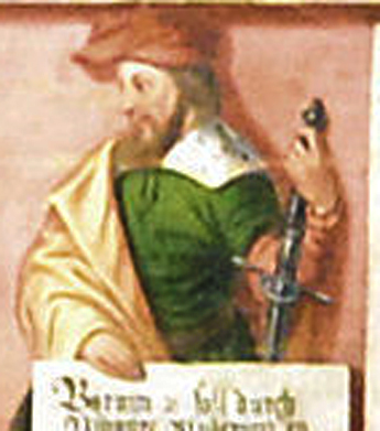 Barnim II of Pomerania